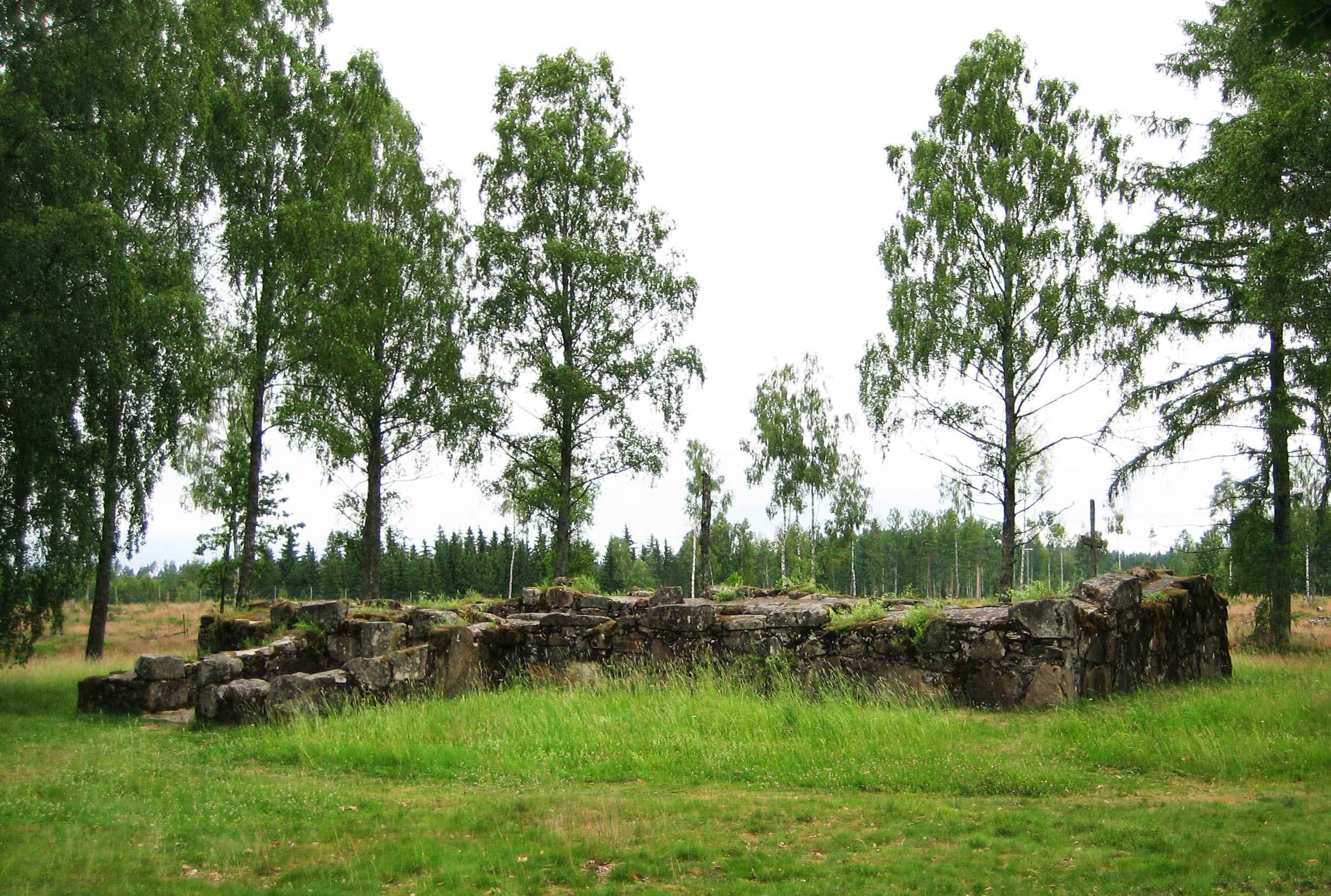 The ruin of Hallsjö church: Hallsjö kyrkoruin, Småland, Sweden. Photo by the uploader.